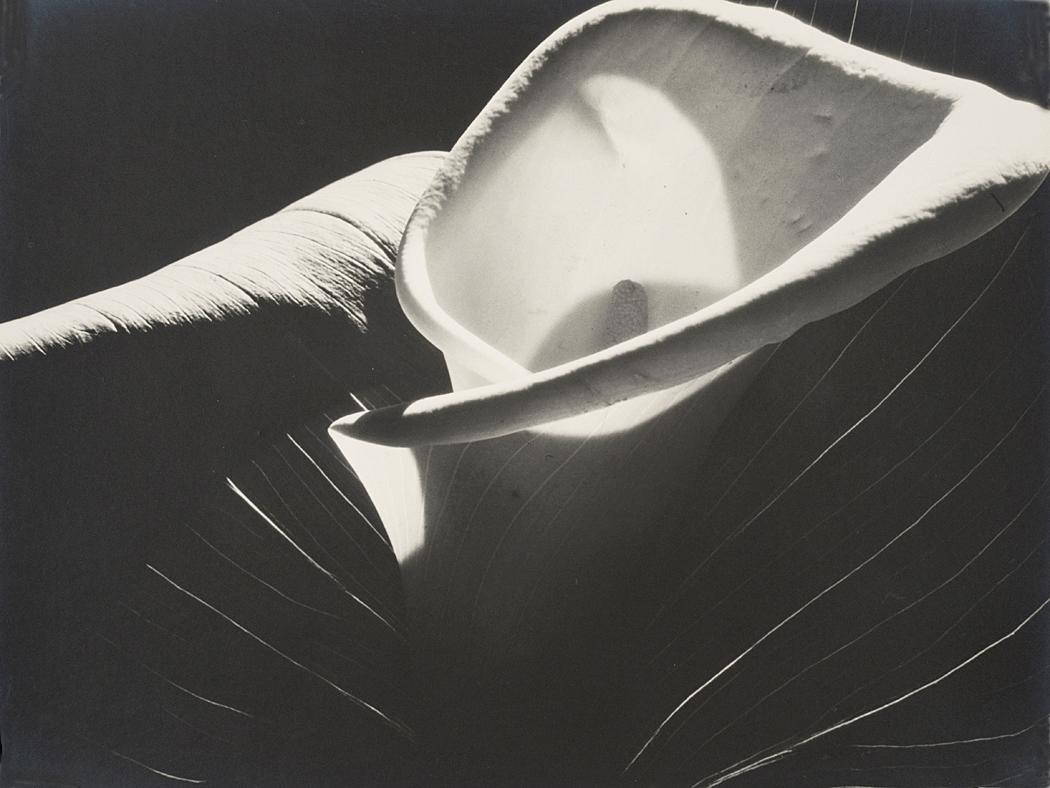 [light-filled bloom facing upward, diagonal veins in dark leaf below